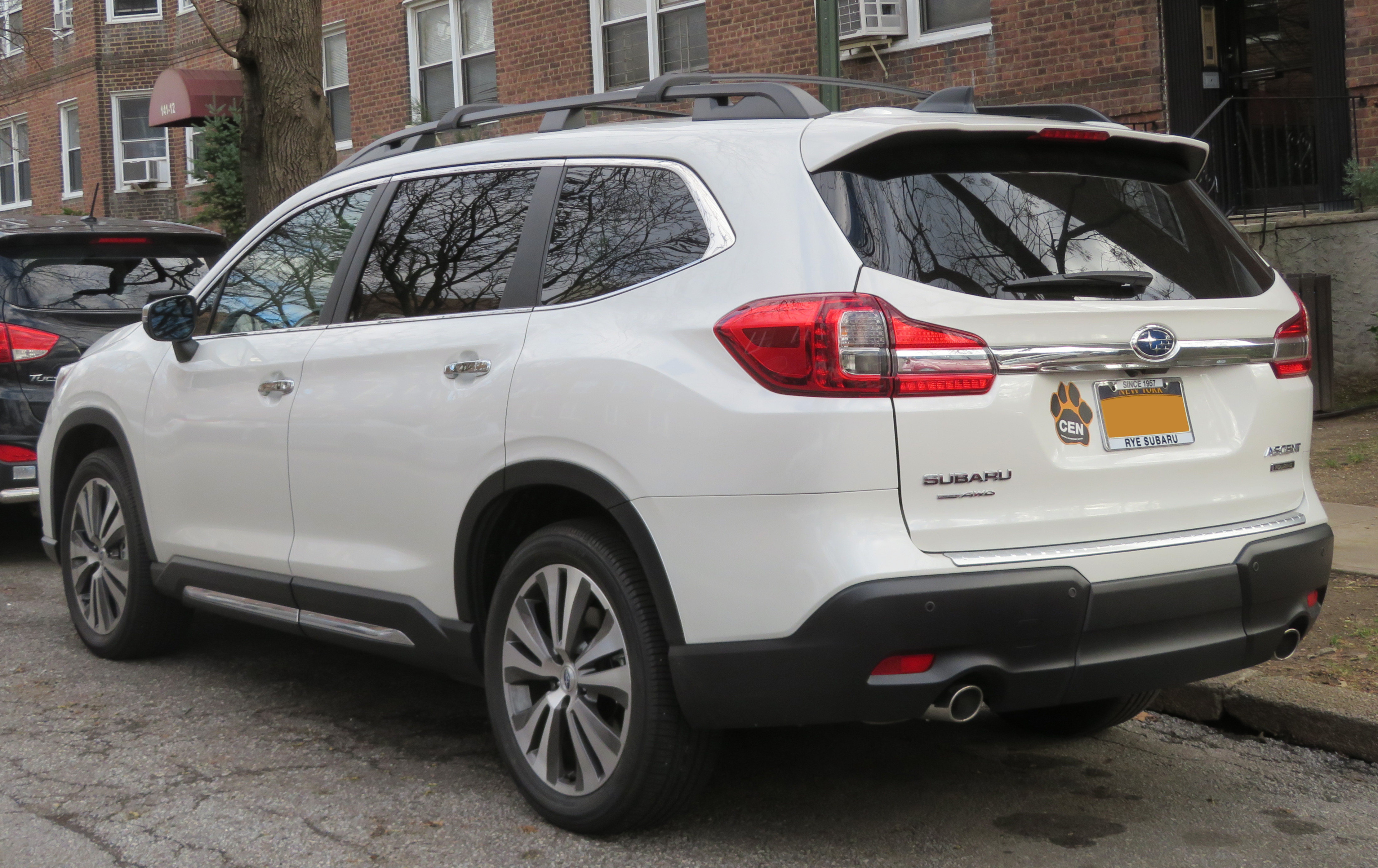 Photographed in Queens, New York